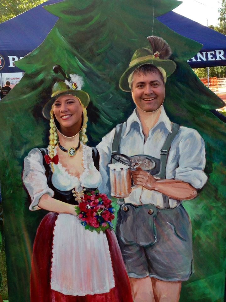 Hosted by the Springboro United Church of Christ, Oktoberfest Springboro is a fun cultural festival in Springboro, Ohio.